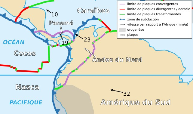 Map of the North Andes Plate